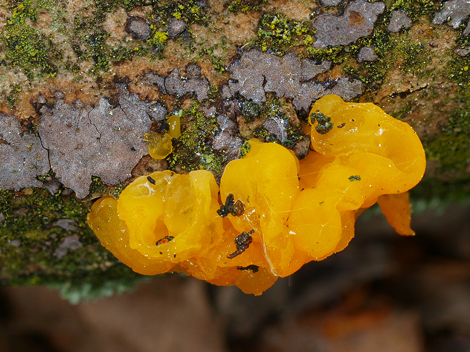 Yellow Brain (Tremella_mesenterica) on its host Peniophora limitata on Fraxinus excelsior. Wertach, Kaufbeuren.